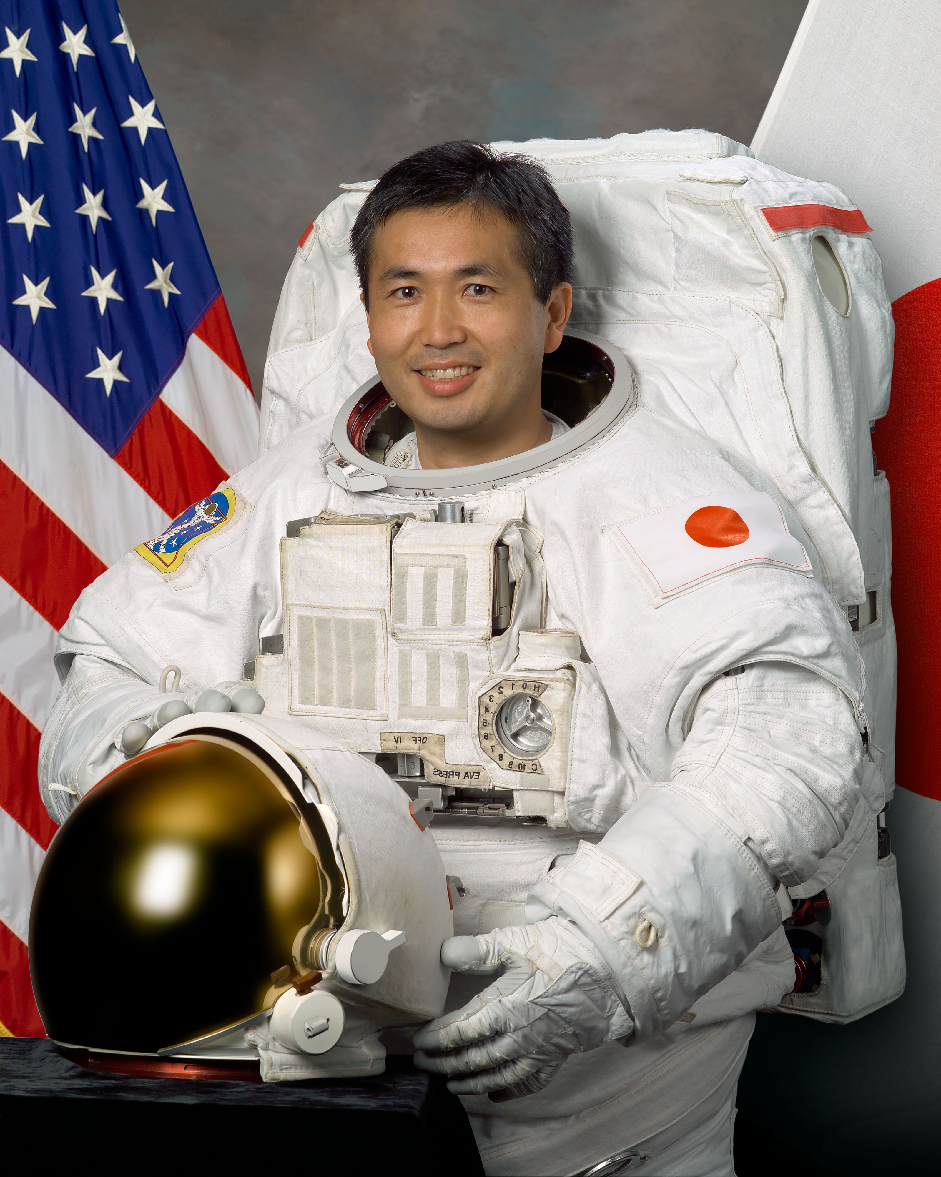 Japan Aerospace Exploration Agency (JAXA) astronaut Koichi Wakata, flight engineer